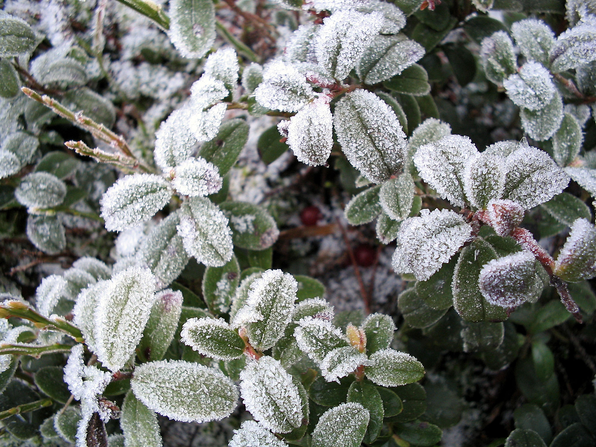 Frost on lingonberry leaves.